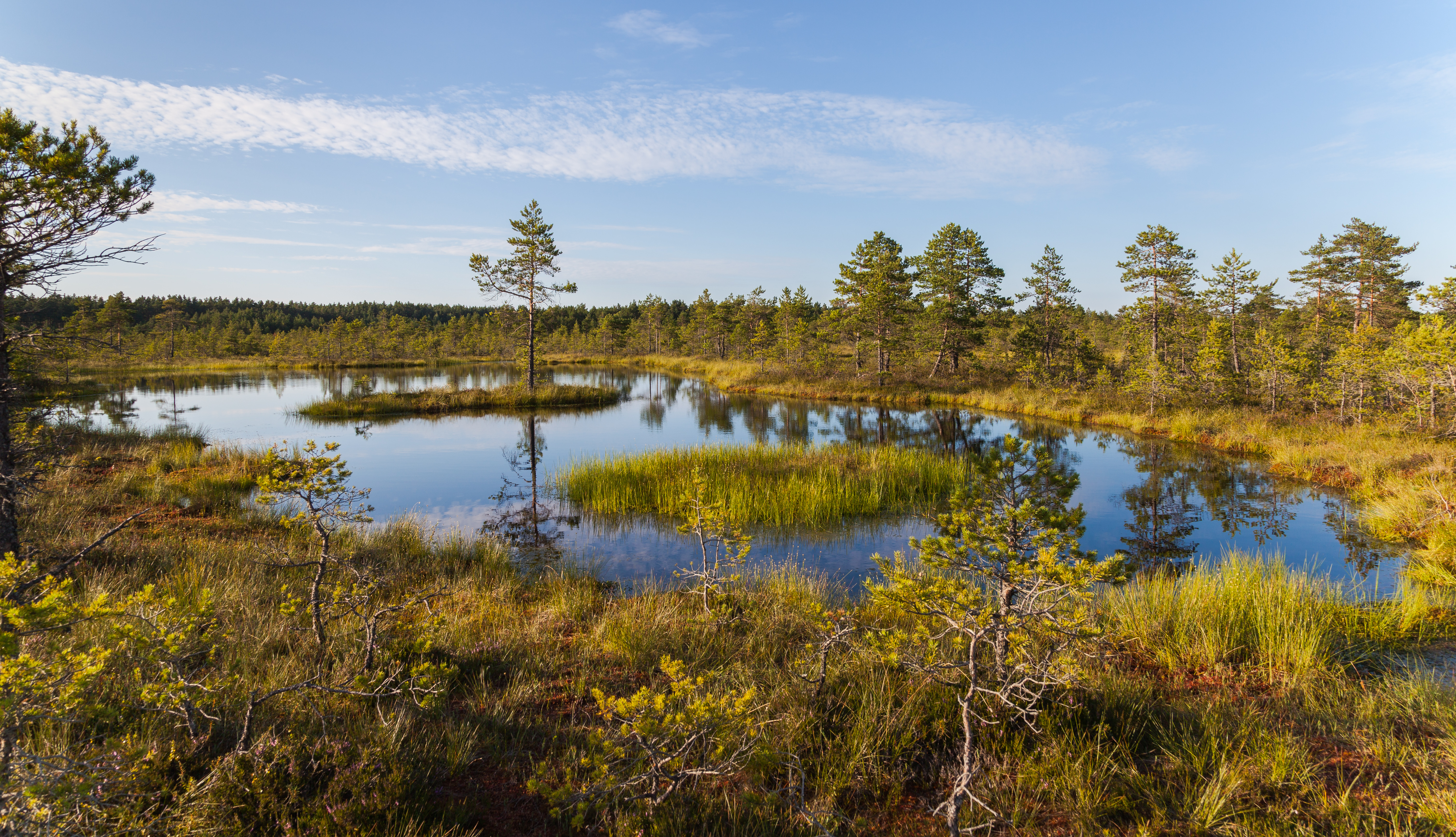 Viru bog, Lahemaa National Park, Estonia